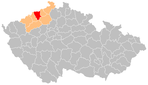 District of Teplice